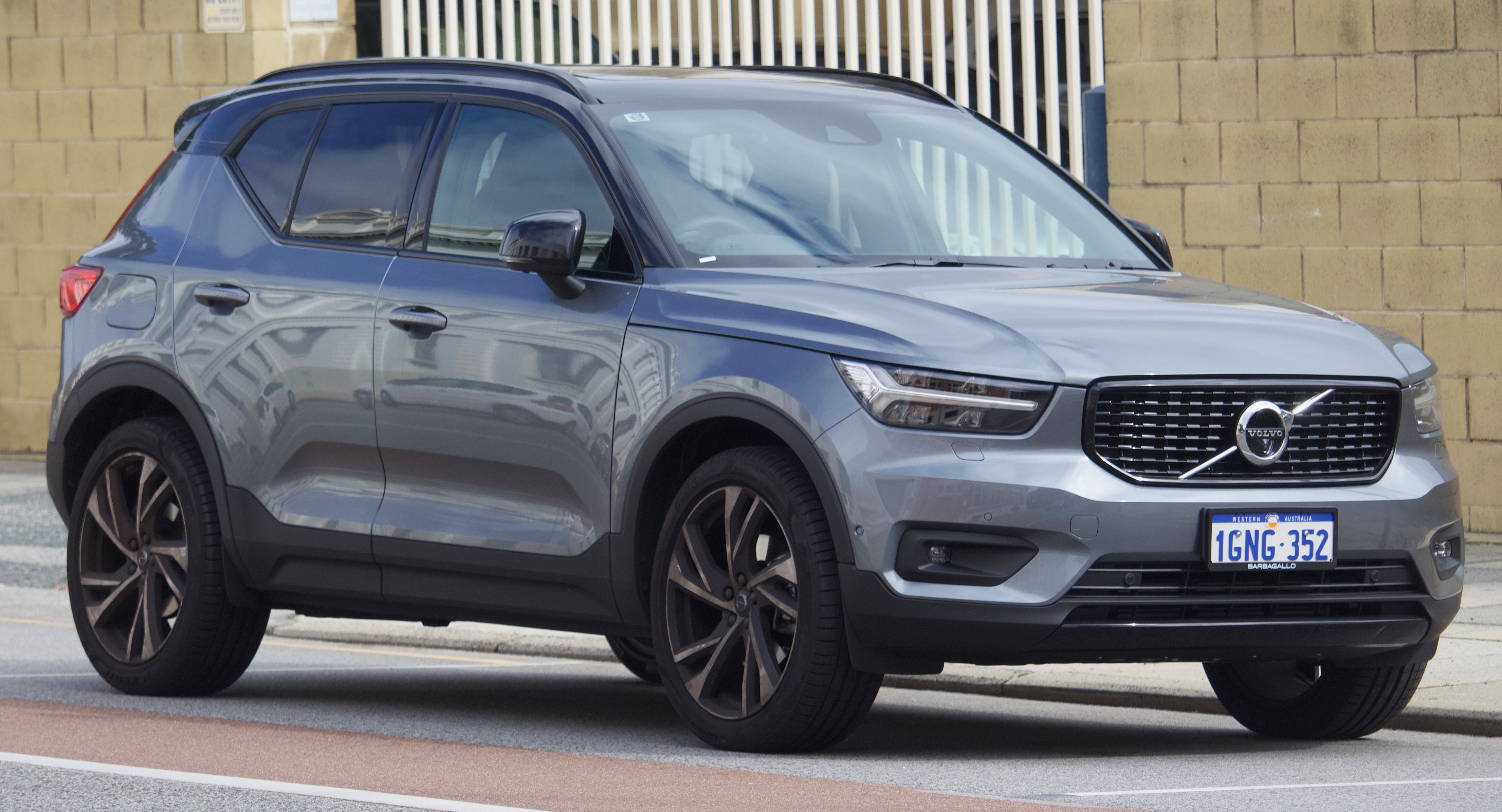 2018 Volvo XC40 T5 R-Design AWD wagon. Photographed in Fremantle, Western Australia, Australia.